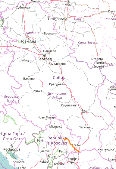 OpenStreetMap of State Road 42 in Serbia.